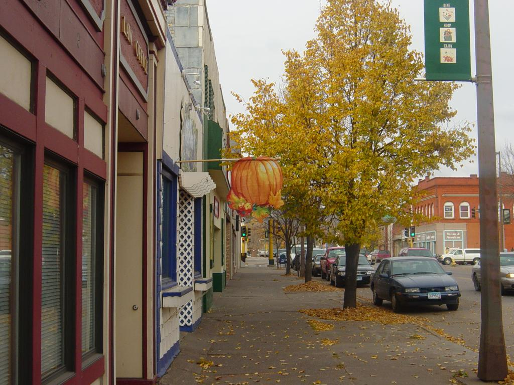 Picture taken from Central Ave. in West Duluth of part of the neighborhood's "downtown" district. Taken November 3, 2005 by Jacob Norlund (me).